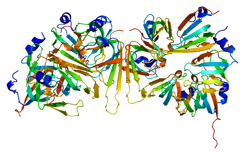 Structure of the SNRPB protein. Based on PyMOL rendering of PDB 1d3b.